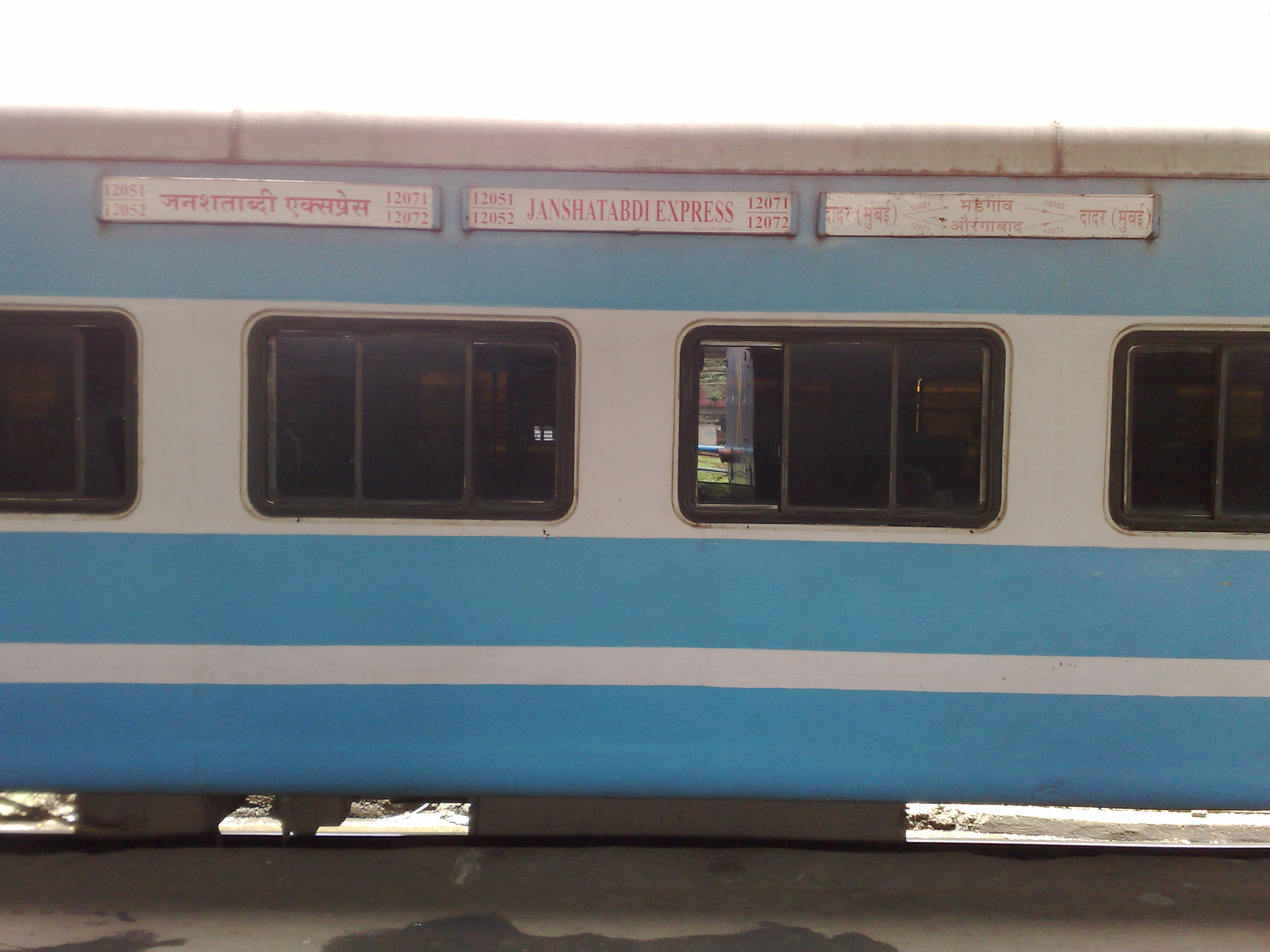 12072 Janshatabdi Express Non AC coach